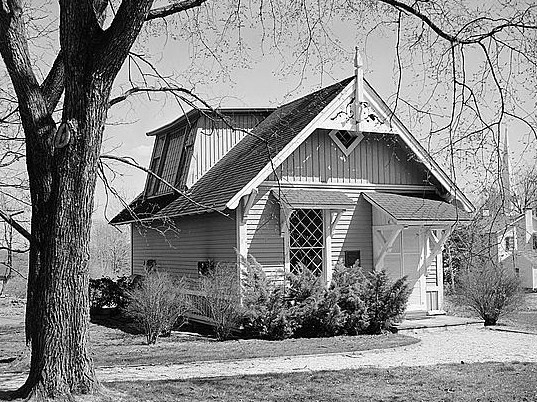 John Rogers Studio — 13 Oenoke Ridge , New Canaan (Fairfield County, Connecticut). 1967 photo from the HABS—Historic American Buildings Survey of Connecticut (cropped).